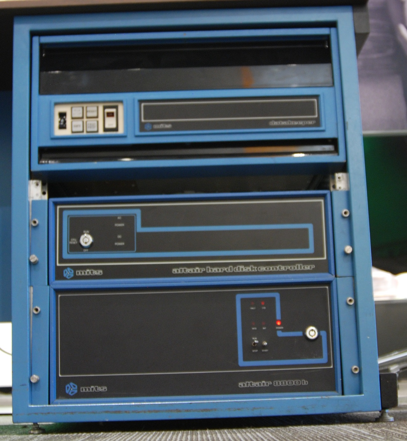 Close up of the Altair 8800B. Part of Pertec/MITS 300/55 Business System. Currently on display at the Living Computer Museum in Seattle, Washington.